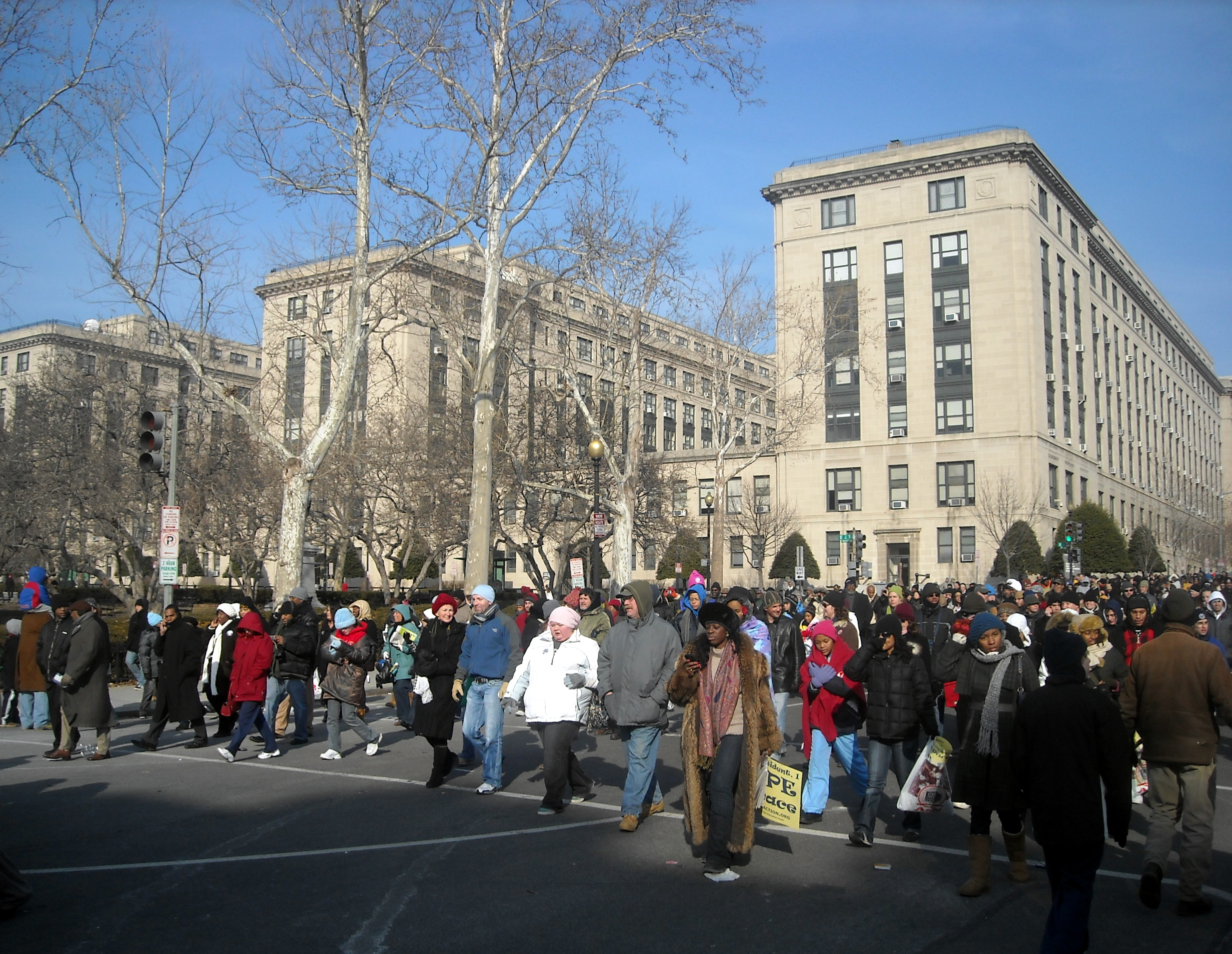 People walking south on 18th Street, N.W., (crossing E Street) and heading towards the National Mall in Washington, D.C. to attend the presidential inauguration of Barack Obama. The General Services Administration headquarters is visible in the background.